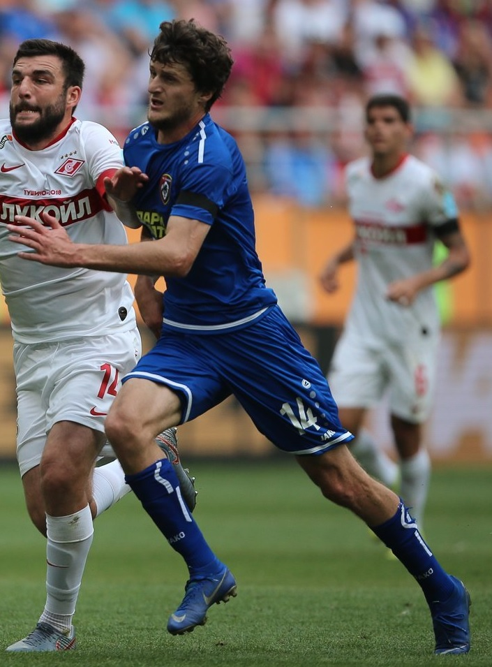 Khyzyr Appayev with FC Tambov in a game against FC Spartak Moscow.